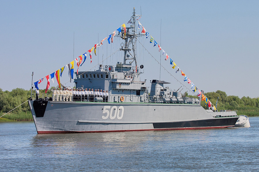 German Ugryumov in Astrakhan.